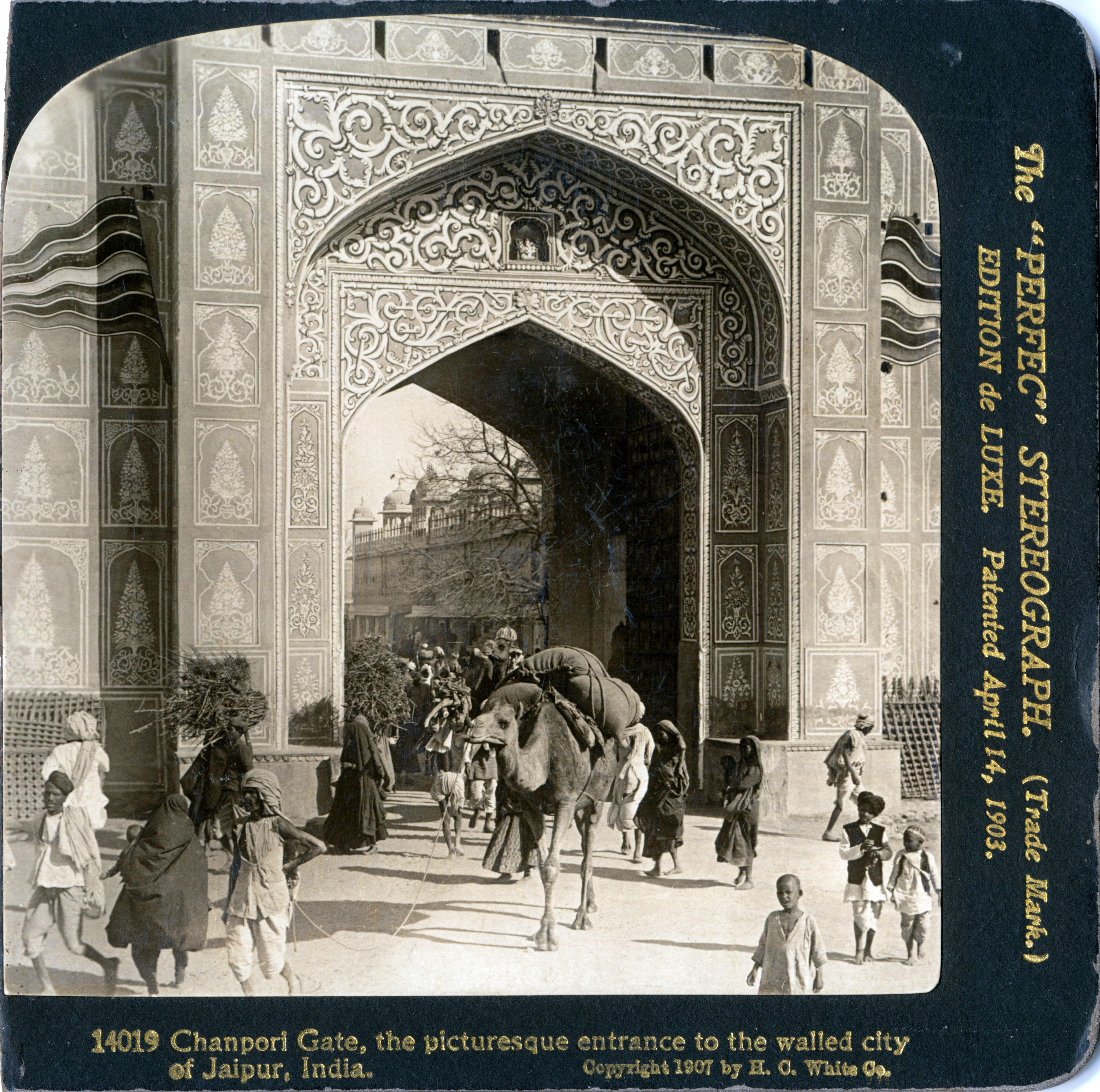 14019. Chanpori Gate, the picturesque entrance to the walled city of Jaipur, India.